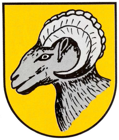 Coat of Arms of Upen, Part of Liebenburg, from 1974 to 1983